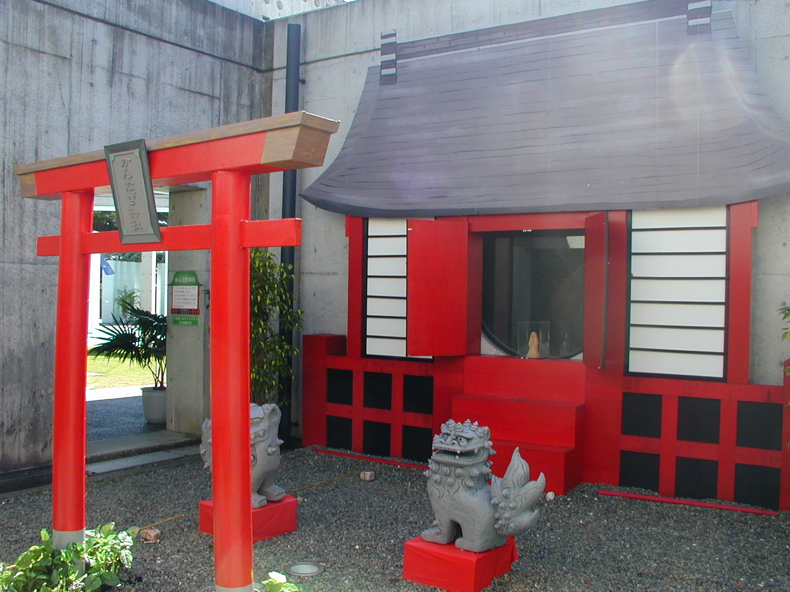 Kannagi-Jinja